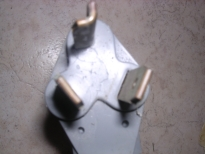 A 240 V NEMA 10–30 plug, a three-pin plug used in clothes dryers and electric ranges found in North America.